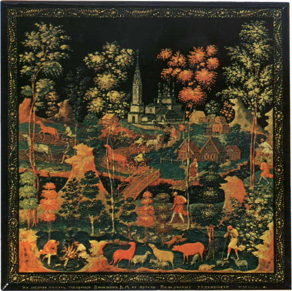 The town of Palekh. Miniature on a lacquered plate.